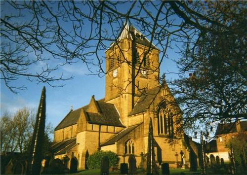 Holy Trinity parish church, Church Road, Shaw, Greater Manchester, seen from the southeast